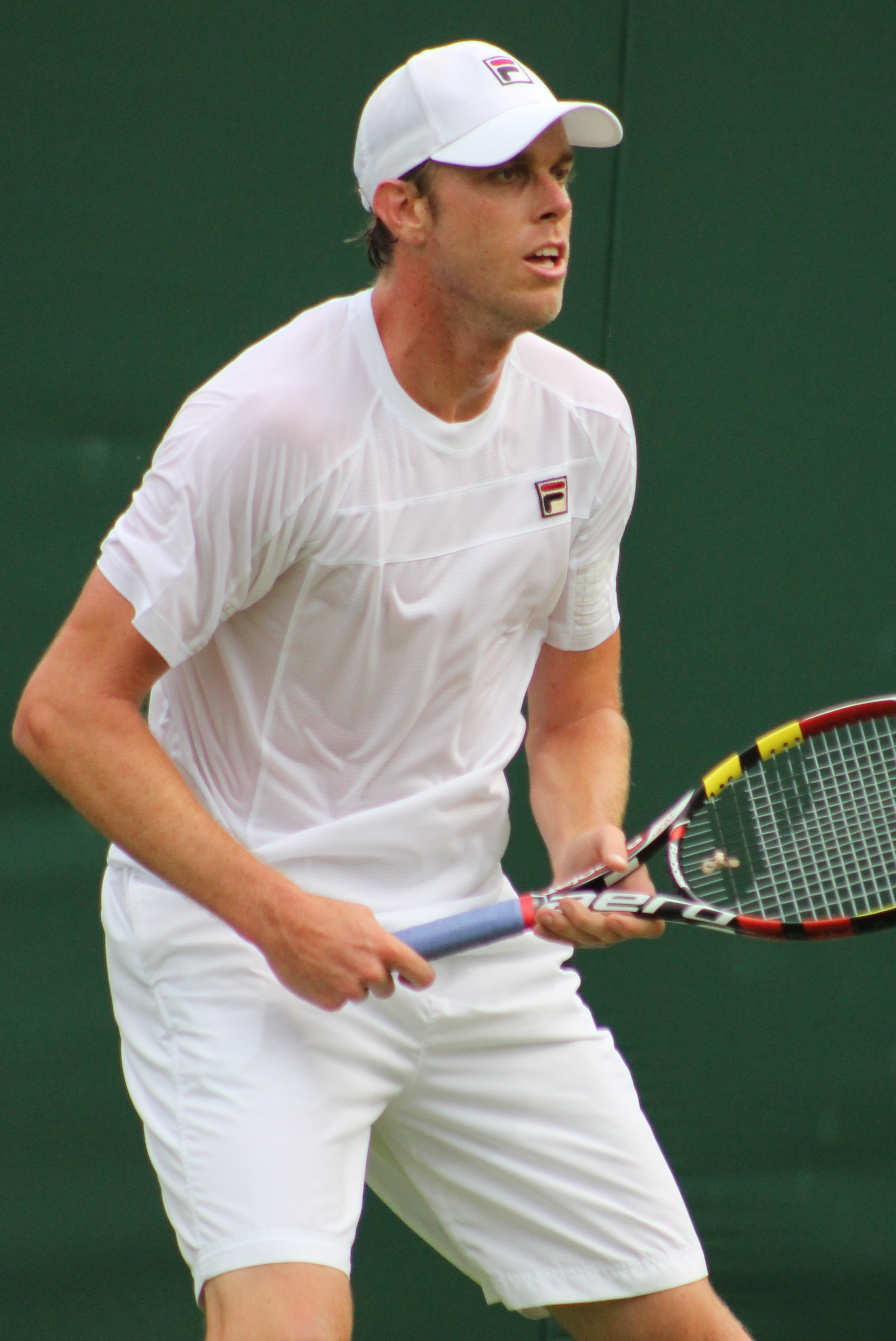 Querrey WM14 (10)